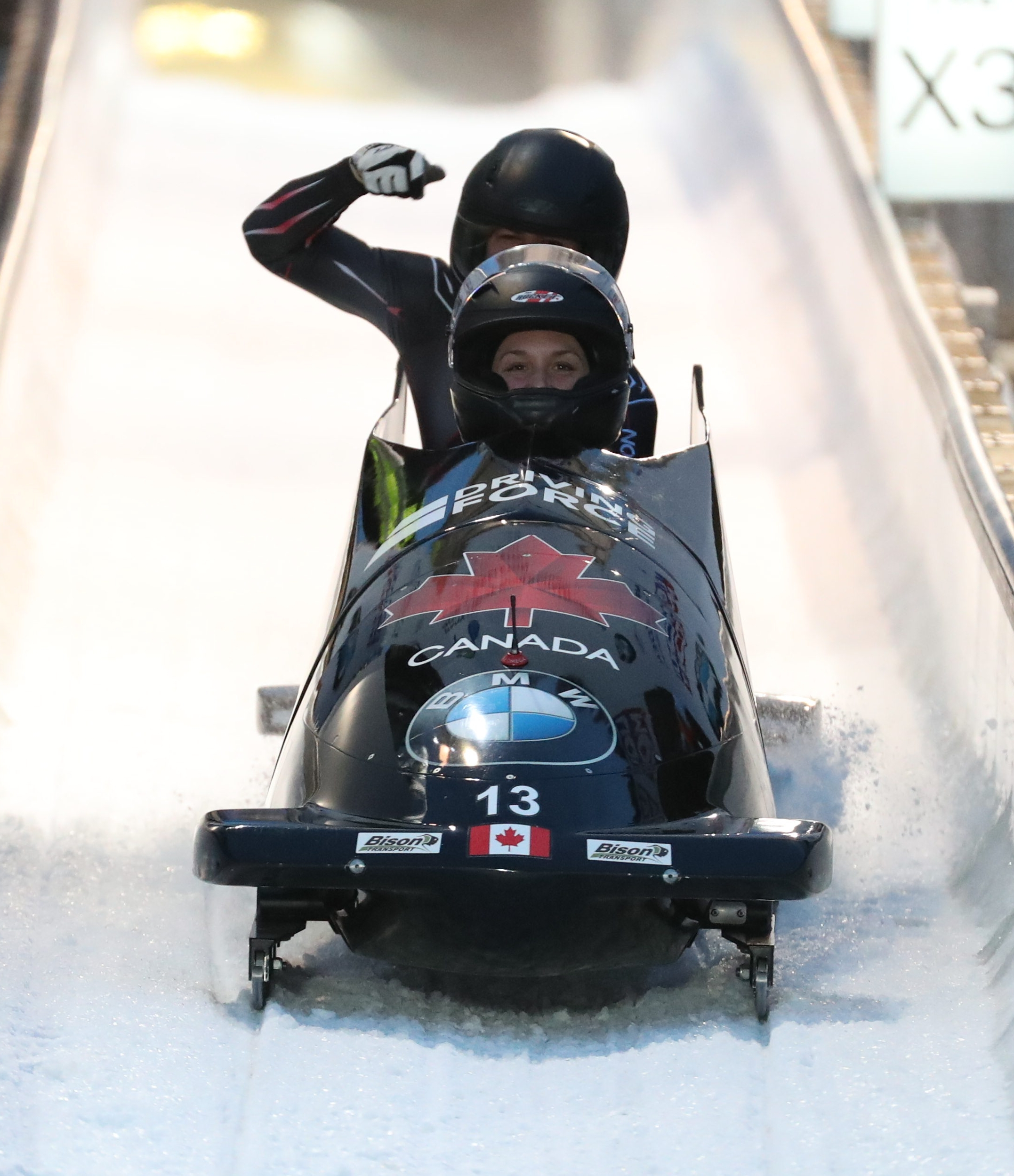 4th run at the 2-woman bobsleigh at the Bobsleigh and Skeleton World Championships 2020 in Altenberg